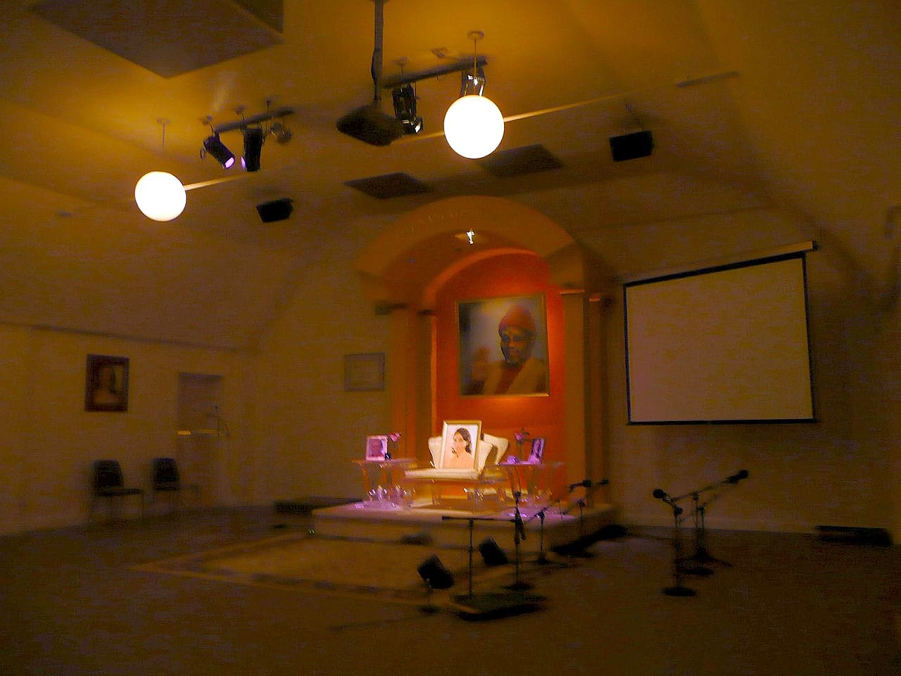 sydney siddha yoga ashram